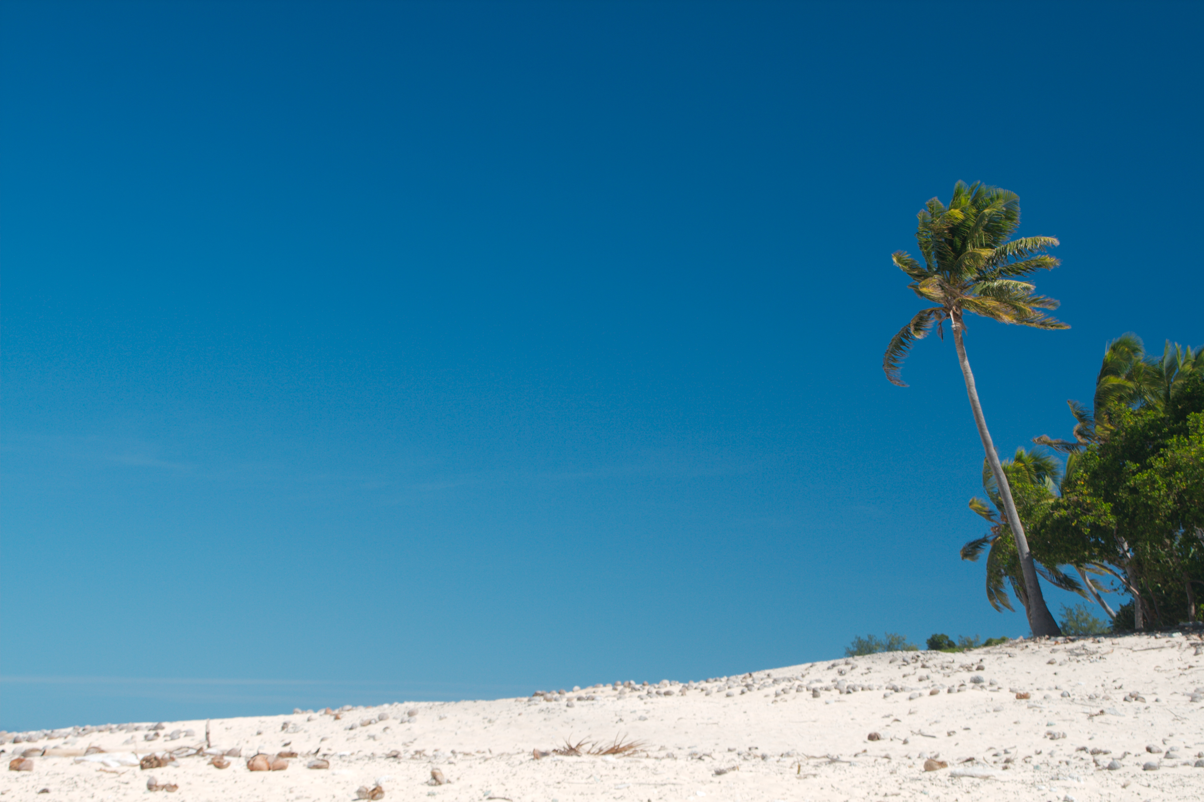 A daytrip to Fijian Islands with the sailship Seaspray.